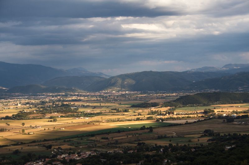 Landscape of Rieti (Lazio, Italy) taken from Greccio